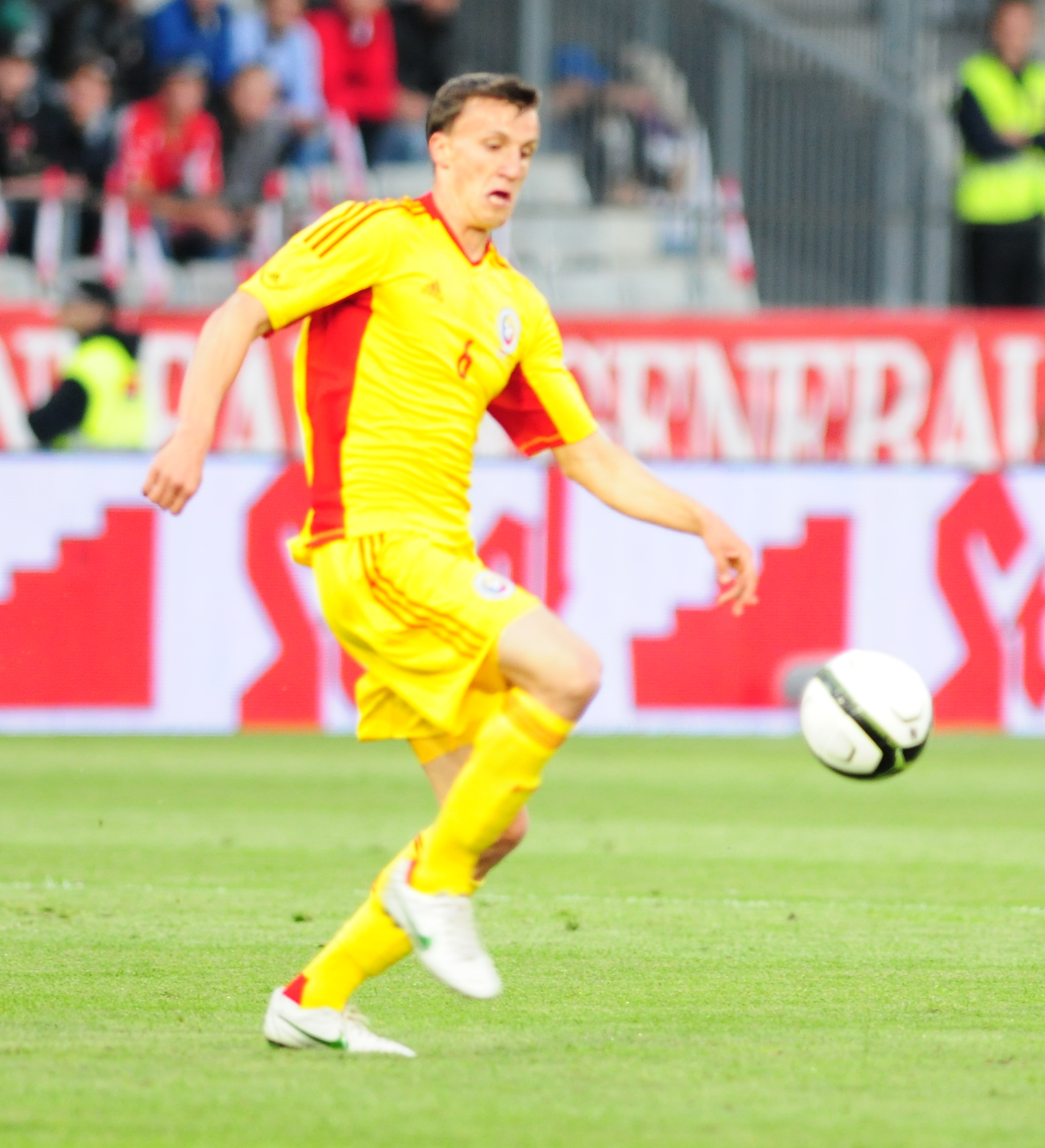 Exhibition game Austria vs. Romania at 5st. June 2012